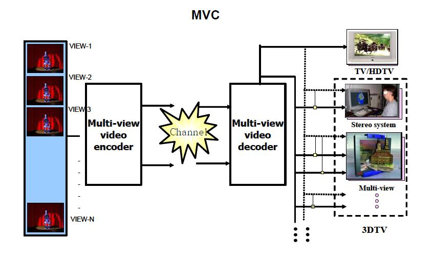 esquema multiview video coding